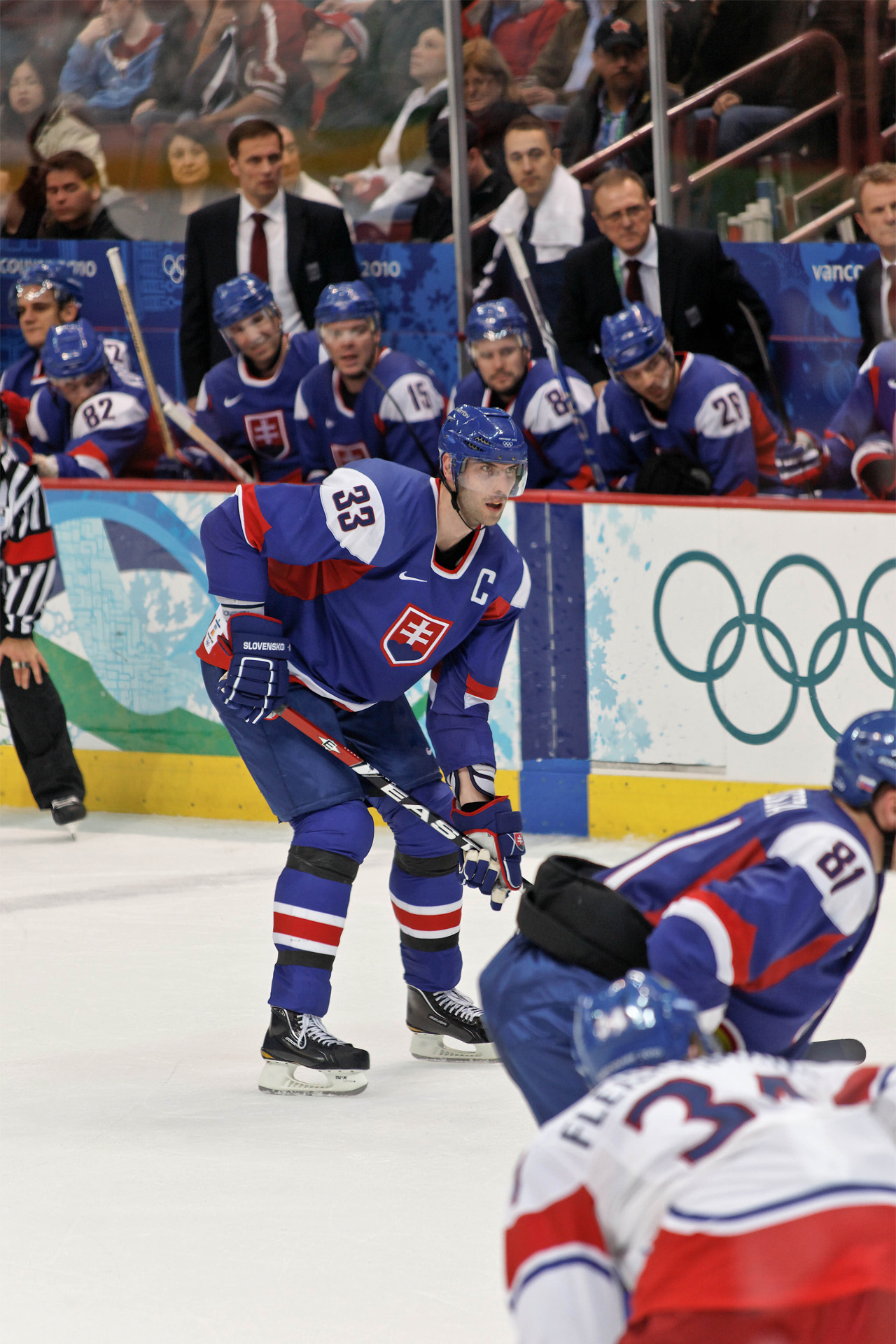 Superstar giant defenseman and captain of Slovakia (and the Boston Bruins!), Zdeno Chara keeps his eye on the puck as it is about to be dropped in the offensive zone.